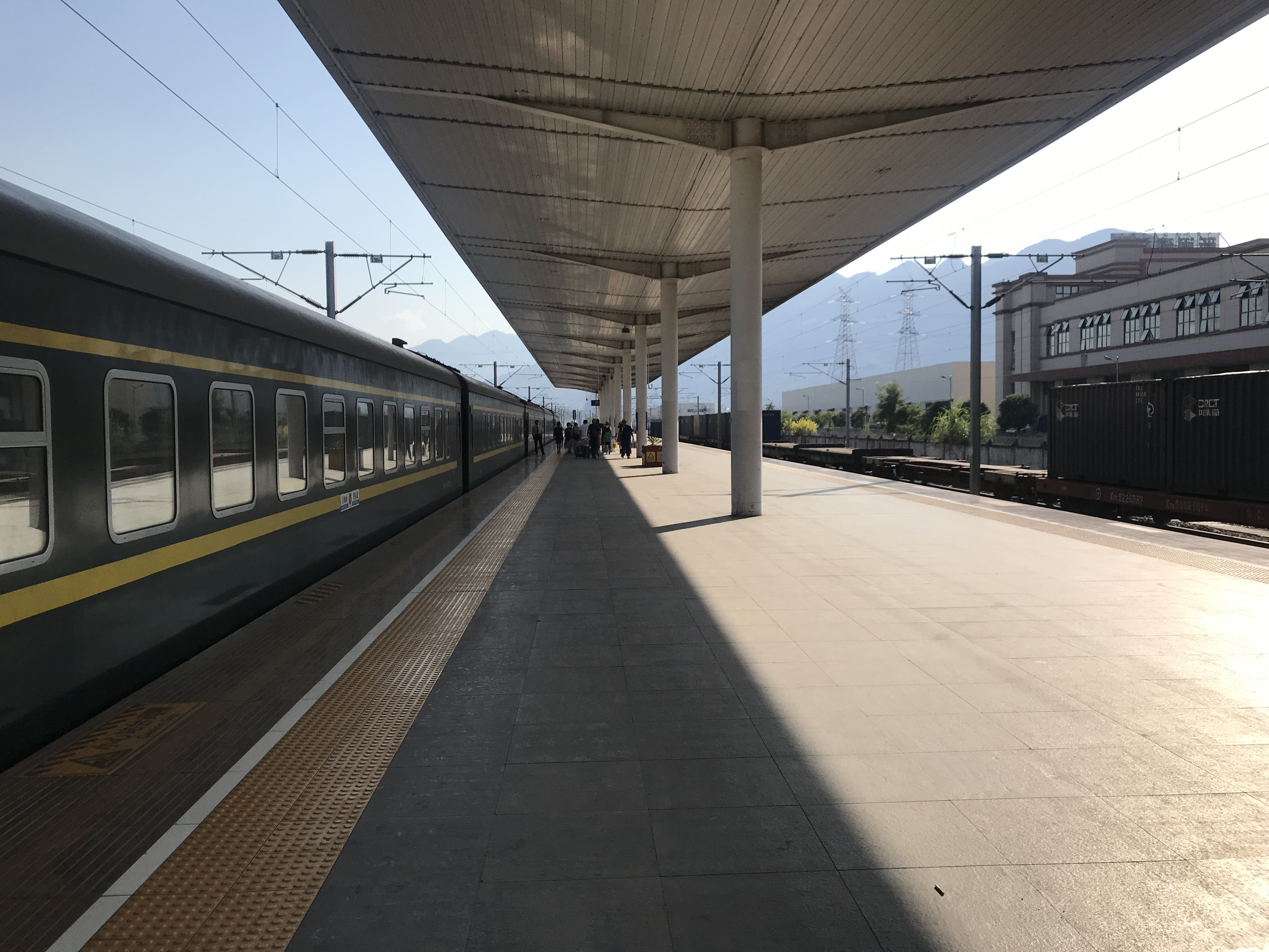 201908 Platform 4,5 of Enshi Station